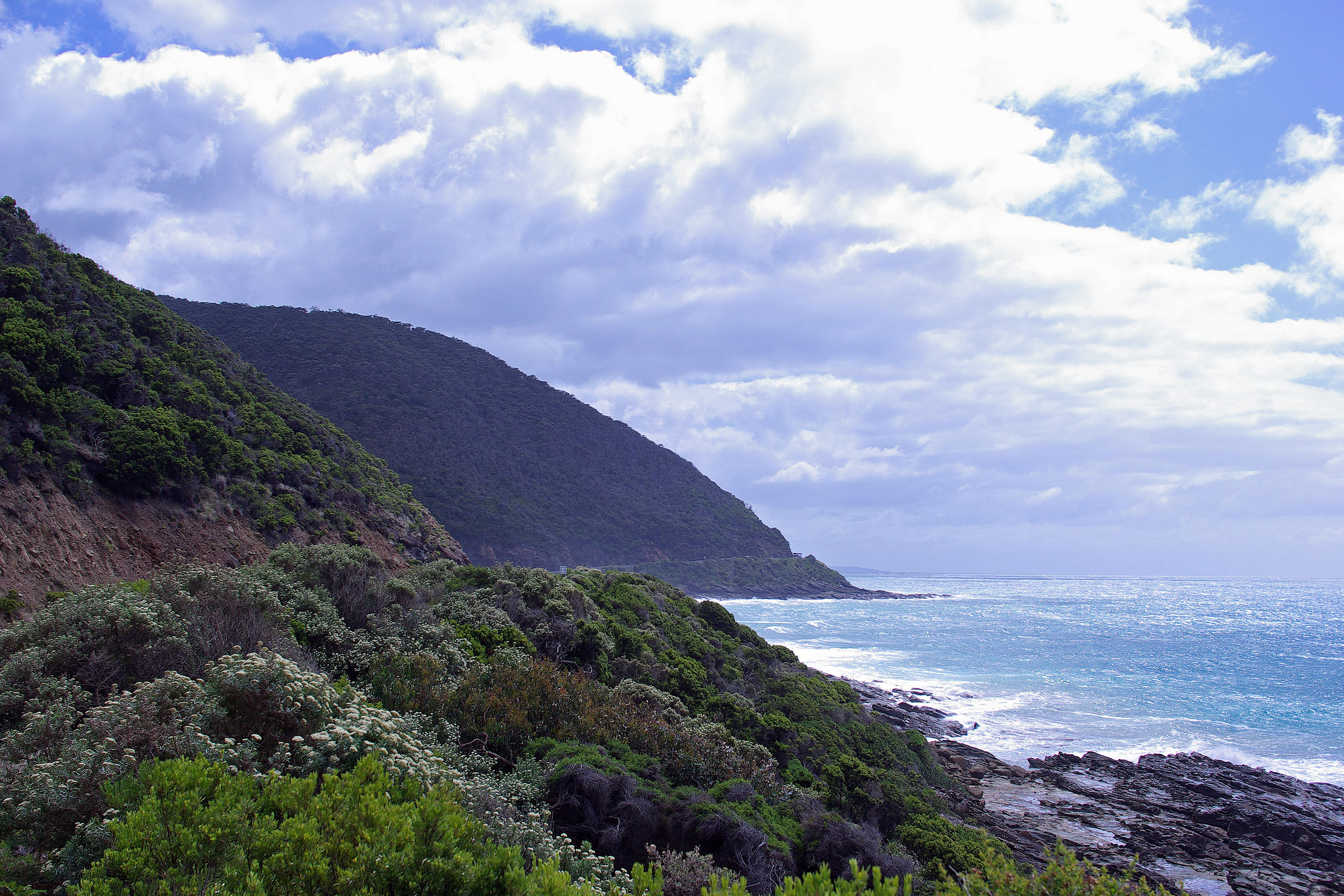 The Great Ocean Road, south-west of Lorne, near the Sheoak Track.